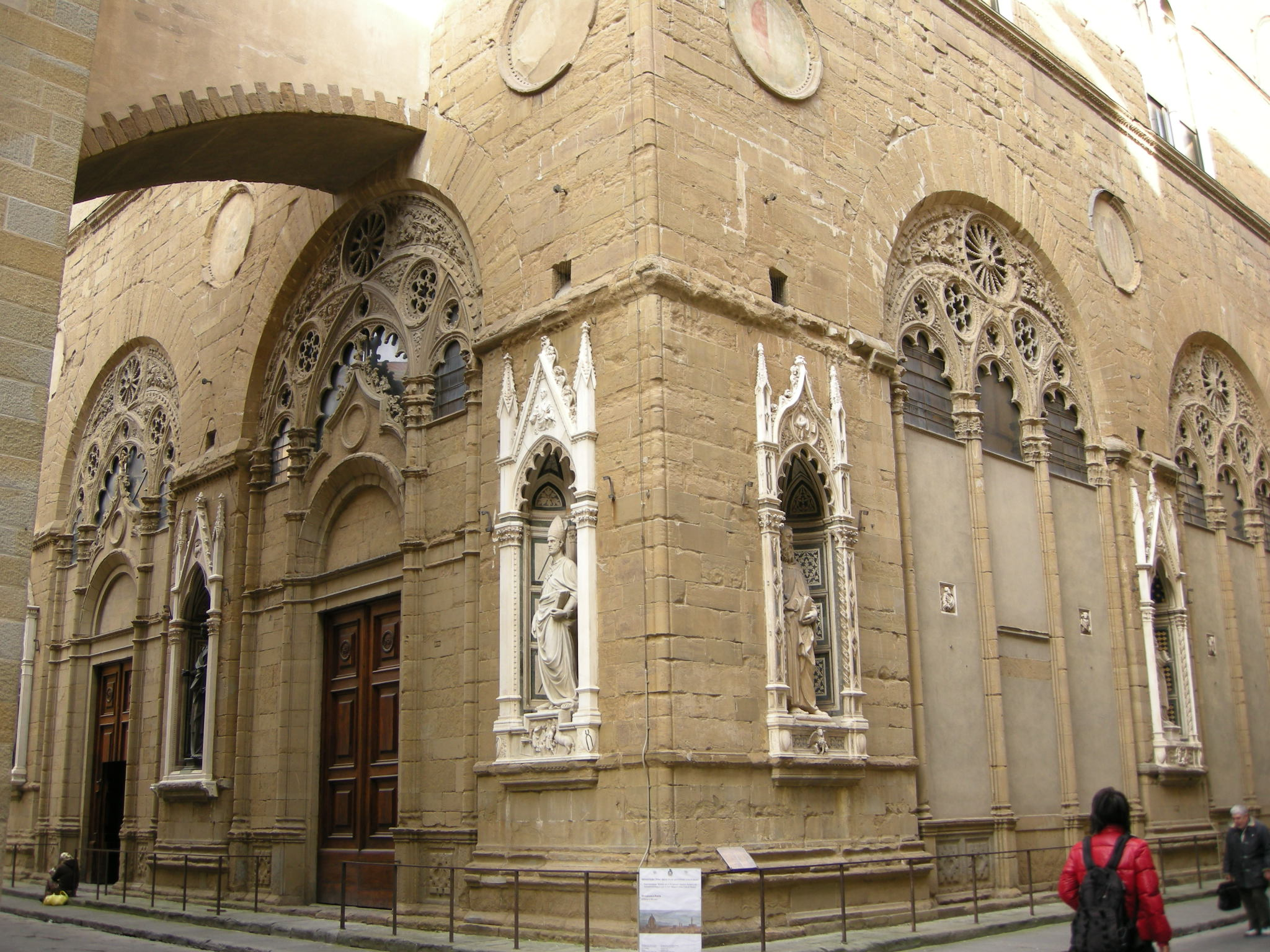 Orsanmichele, base